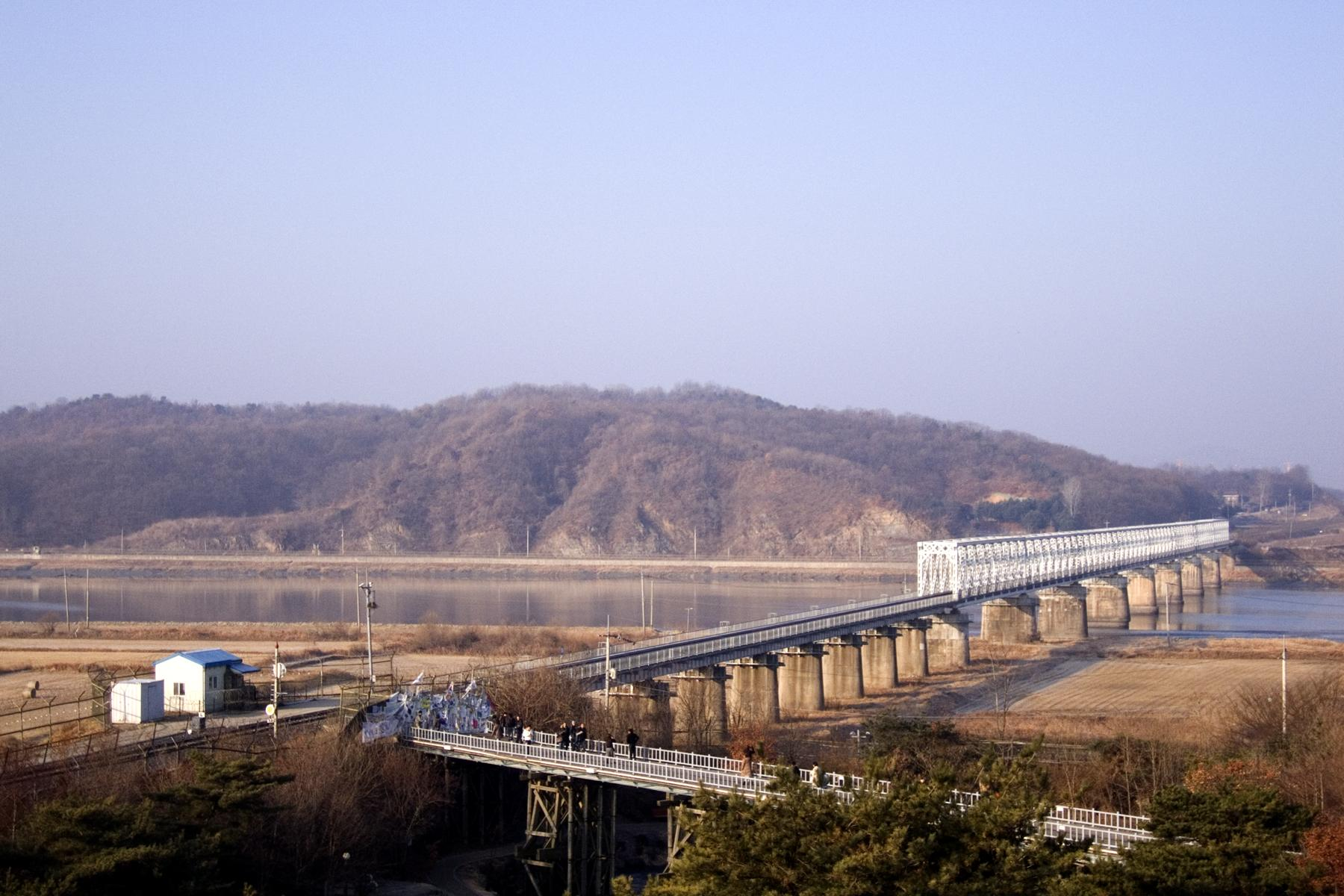 That's Freedom Bridge near the bottom of the photo.